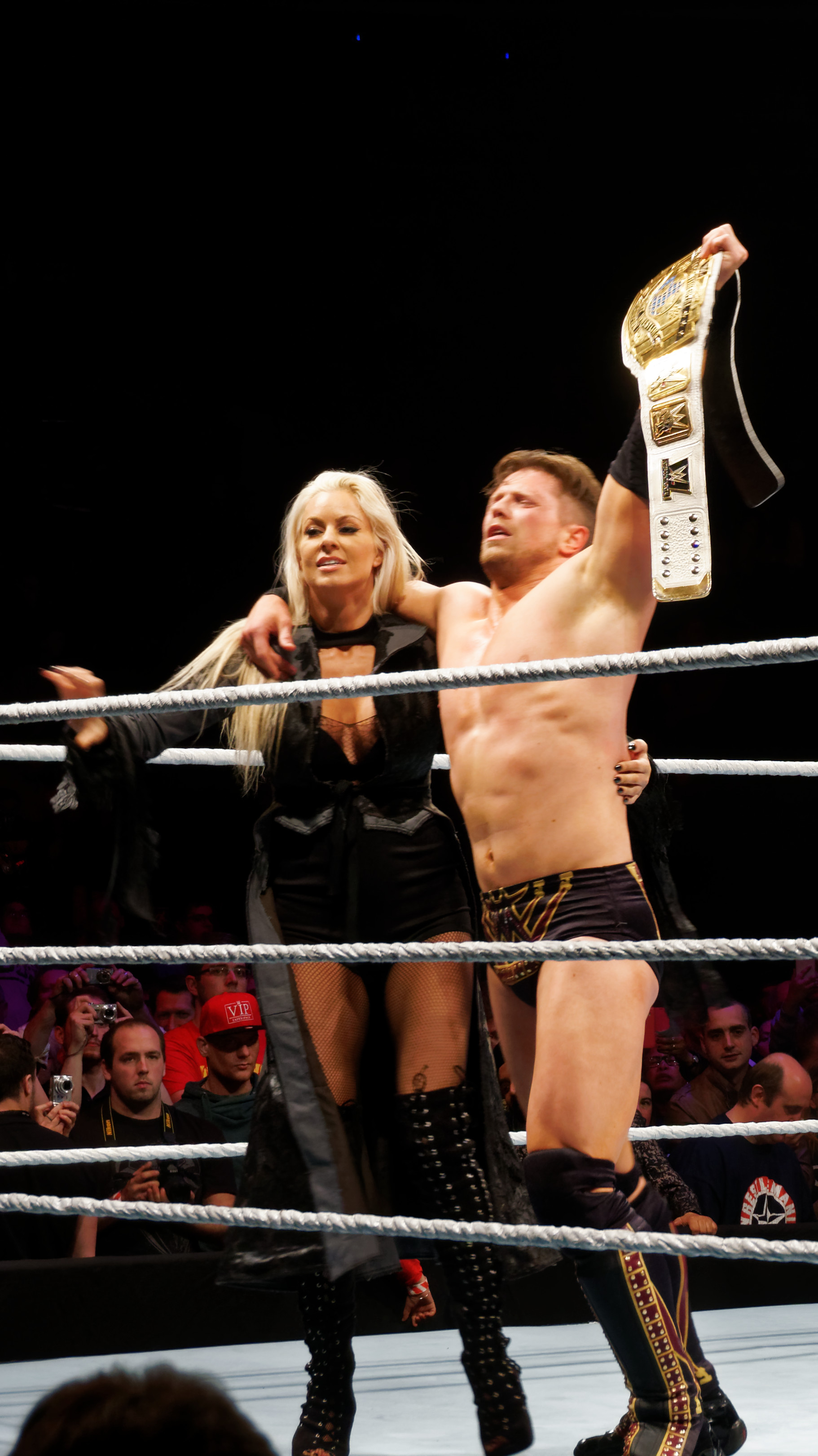 WWE Live WrestleMania Revenge The Miz (c) (With Maryse) def. Dolph Ziggler For : WWE Intercontinental Championship